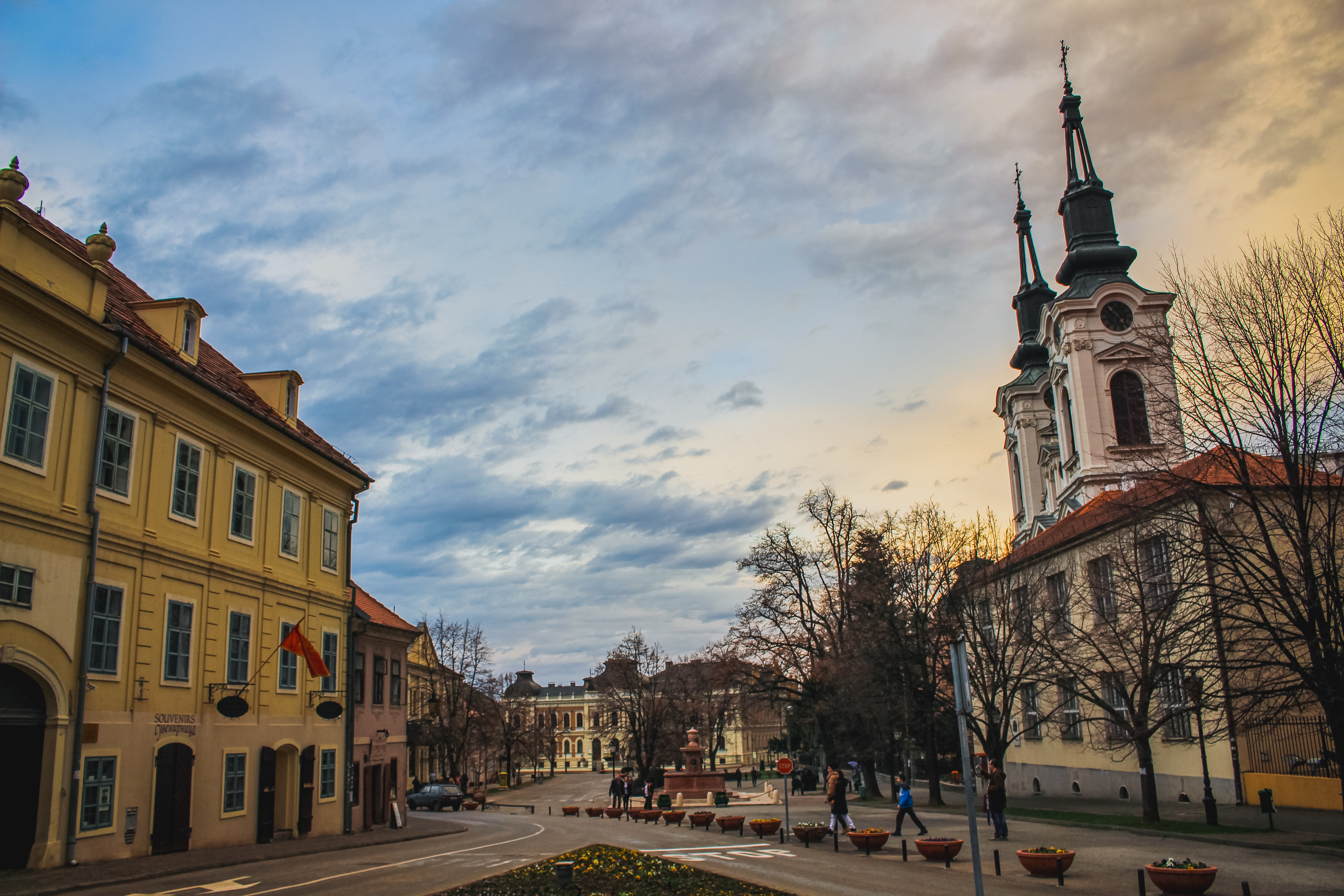 View on Trg Branka Radičevića in Sremski Karlovci,Serbia.Orthodox and Catholic churches on the right,Fountain "Four Lions" (in front) and Clerical High School of Saint Arsenije (in the back) in the middle and Sremski Karlovci City Hall on the left.